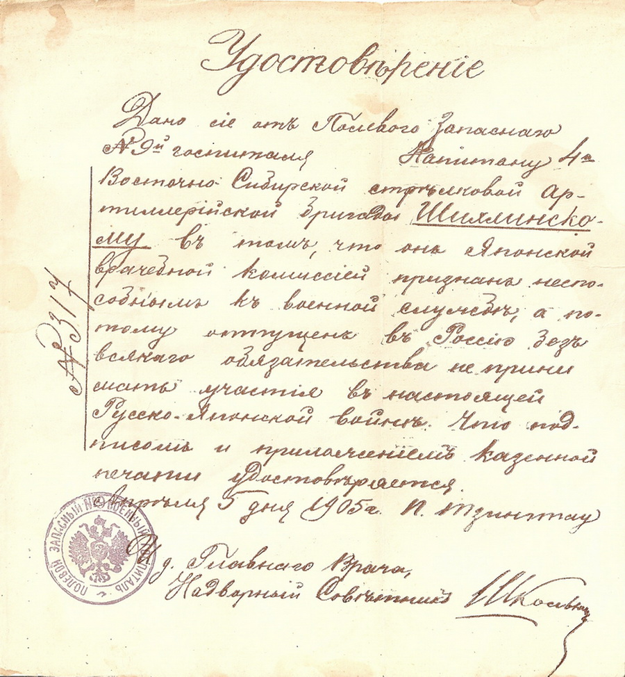 Certificate to A.Shikhlinsky